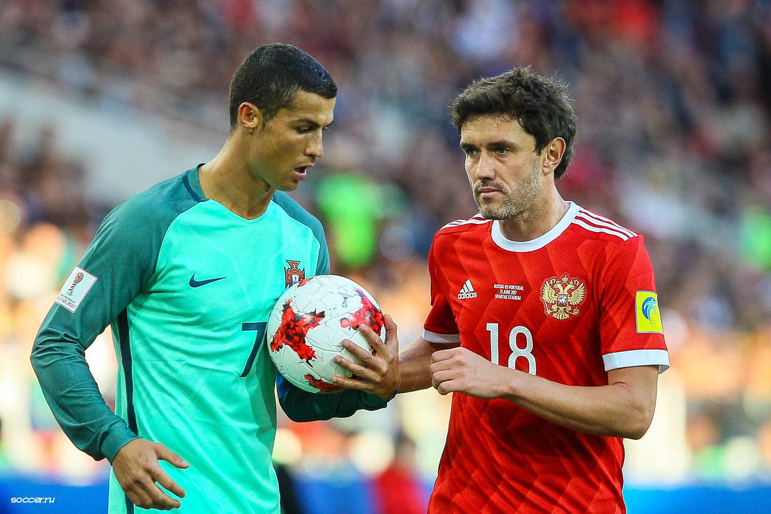 Russia VS. Portugal 0 - 1, 21 June 2017